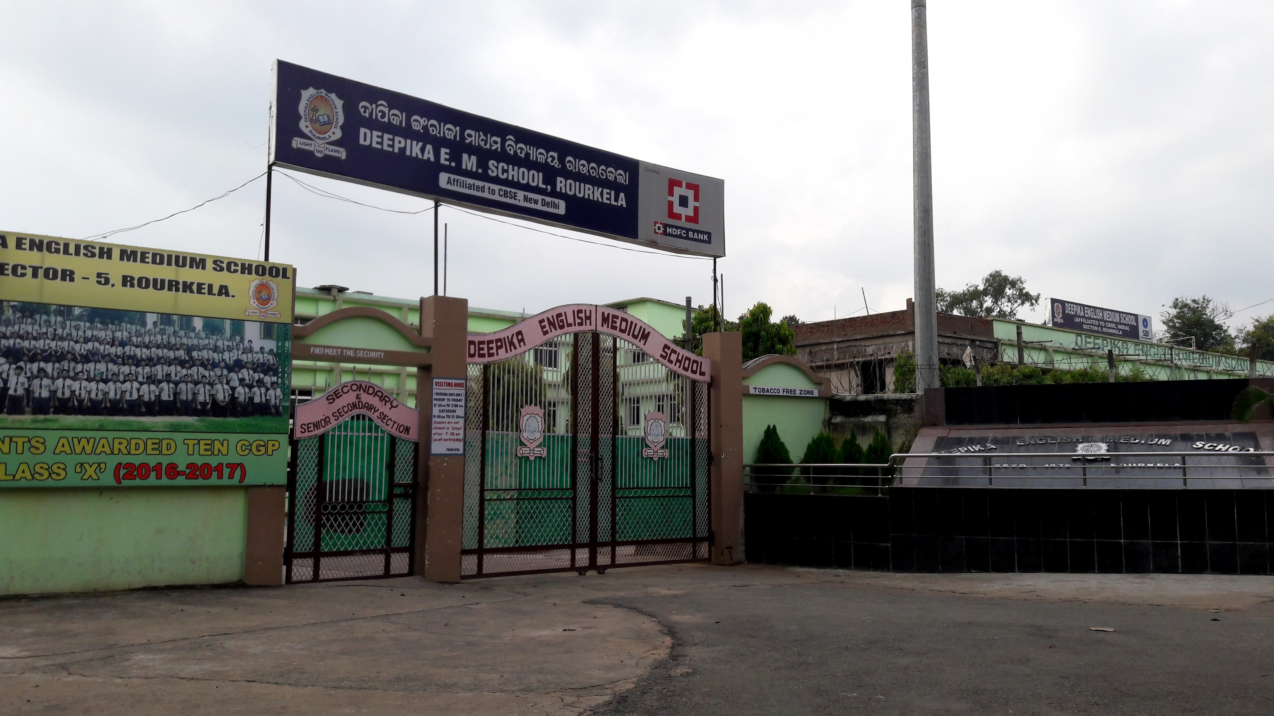 Updated New picture of school Deepika English Medium School (High School), Rourkela